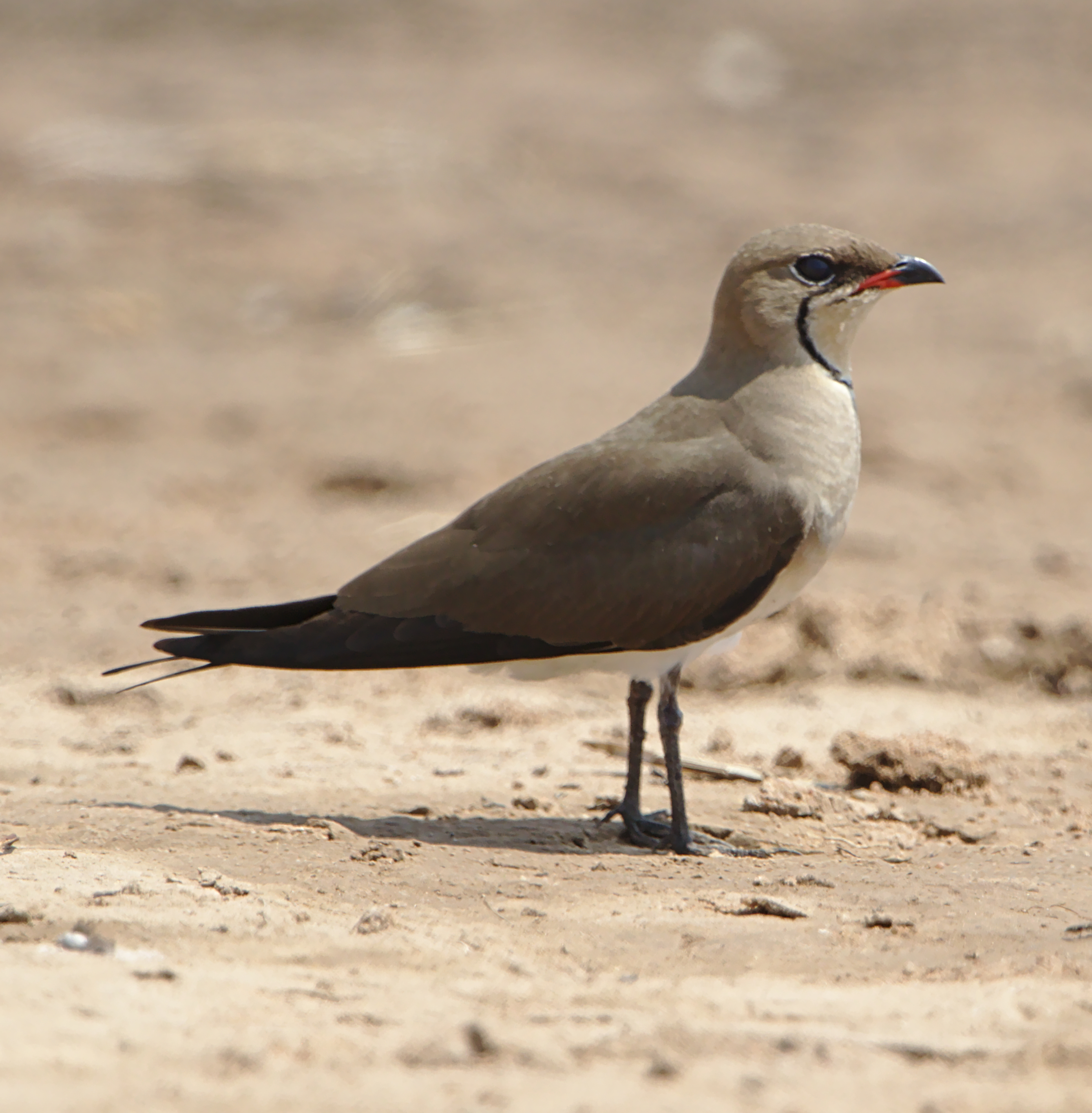 Black-winged pratincole from this weekend at Mkhombo Dam, Mpulanga